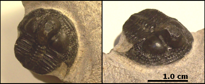 Onnia cf. O. superba (family Trinucleidae) from Alnif (Morocco), Late Ordovician.